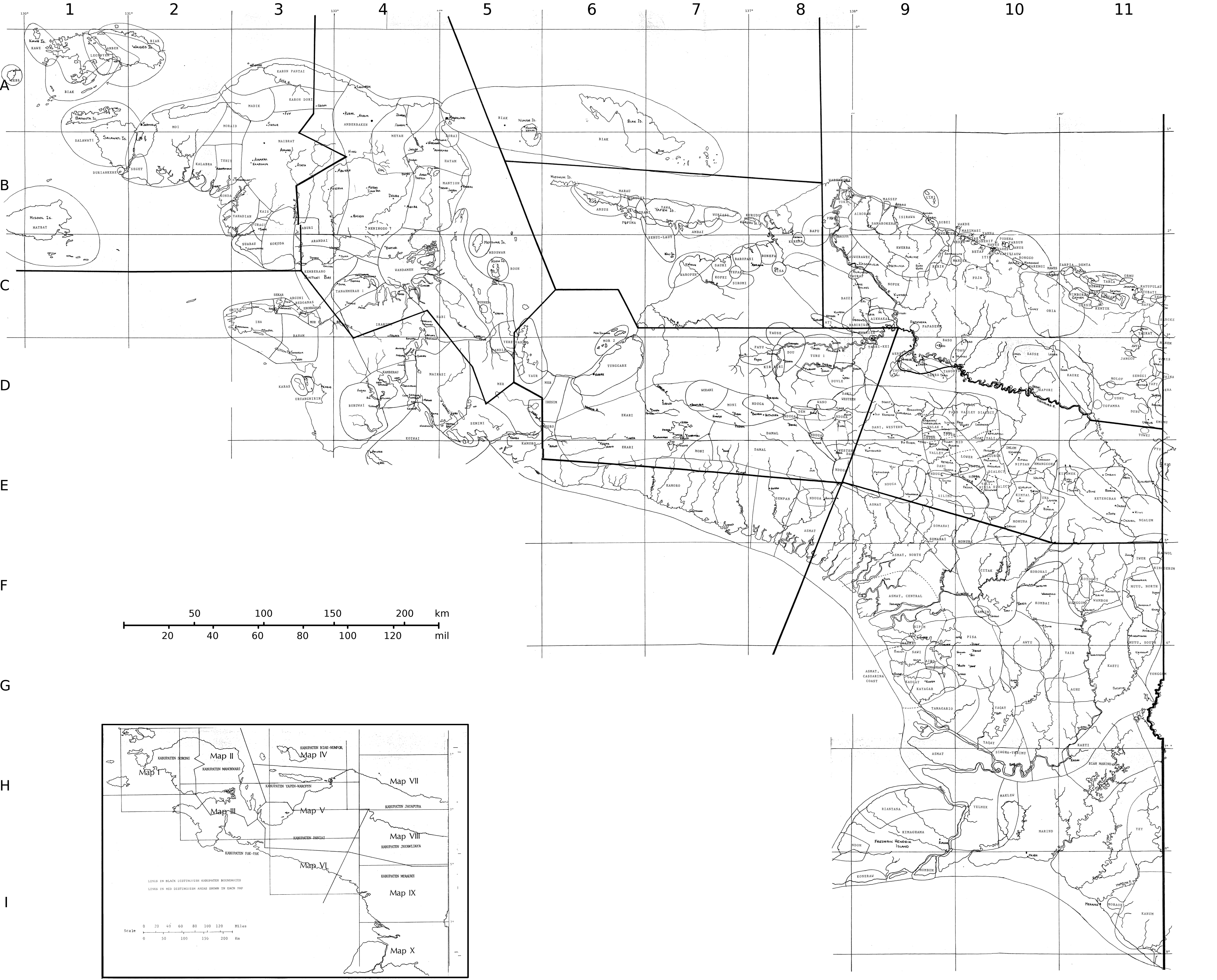 Accompaniment map of INDEX OF IRIAN JAYA LANGUAGES (Peter J. Silzer and Heljä Heikkinen, 1984), stitched together from 10 map parts